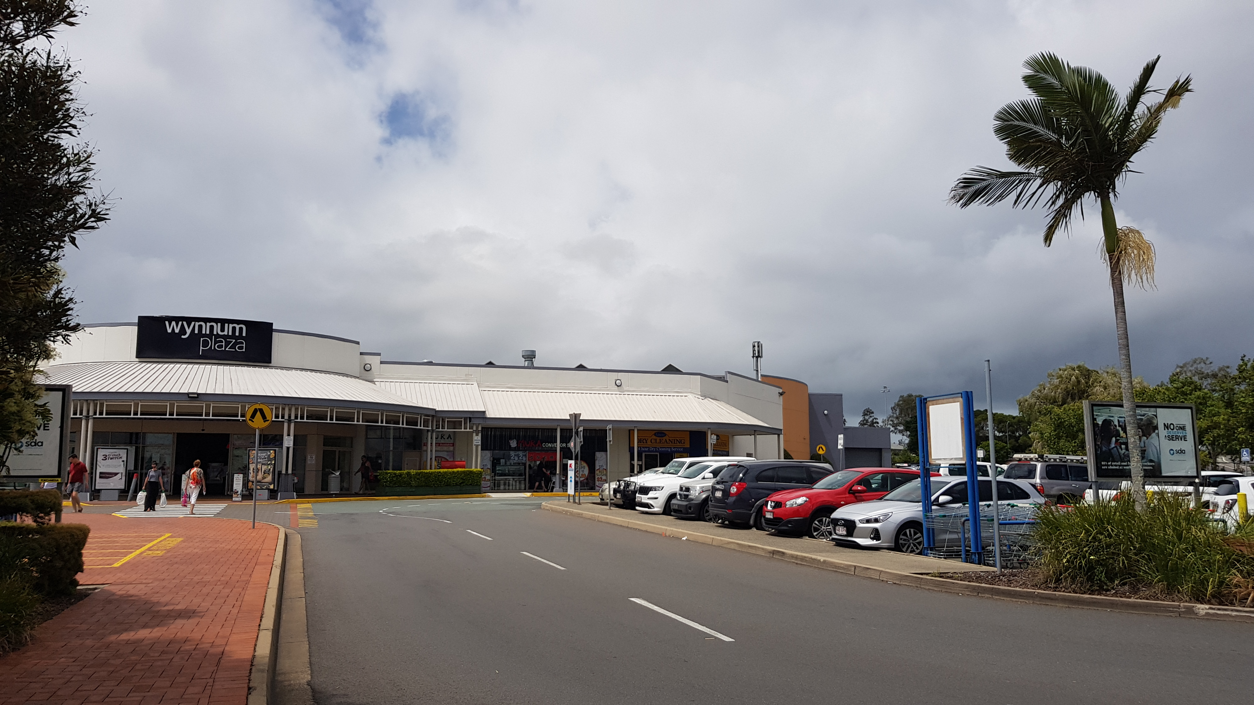 Photograph of the Wynnum Plaza shopping centre entry and carpark in Wynnum West, Queensland